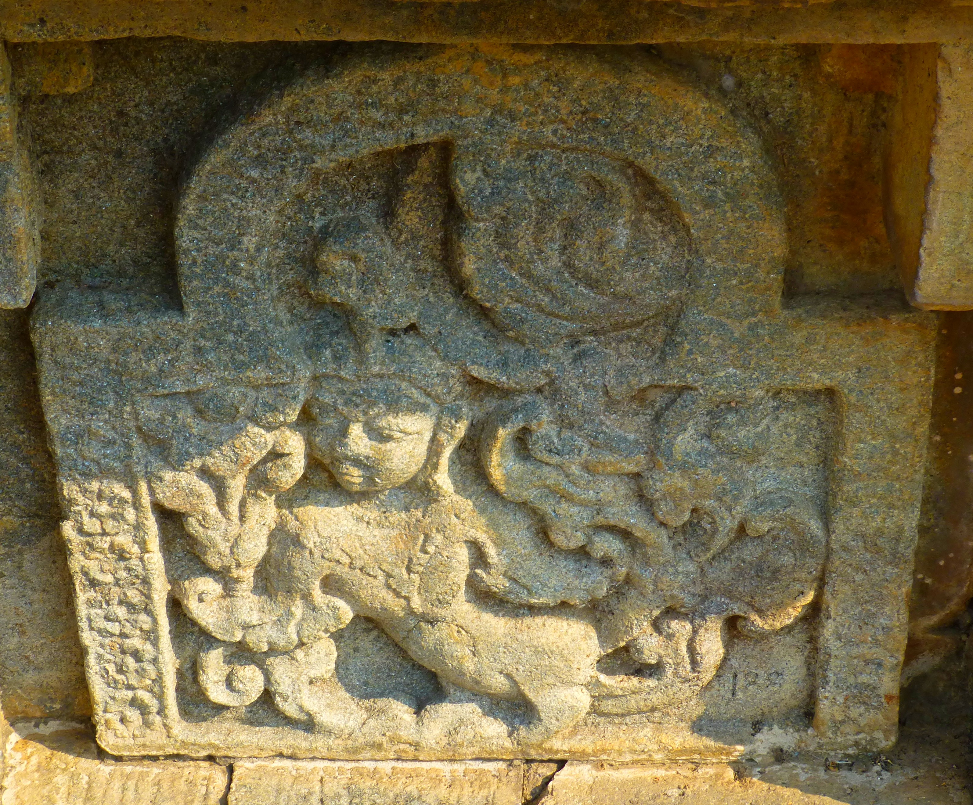 067 Kinnara at Nalanda Photograph from the ruins of Nalanda in Bihar taken by Anandajoti.